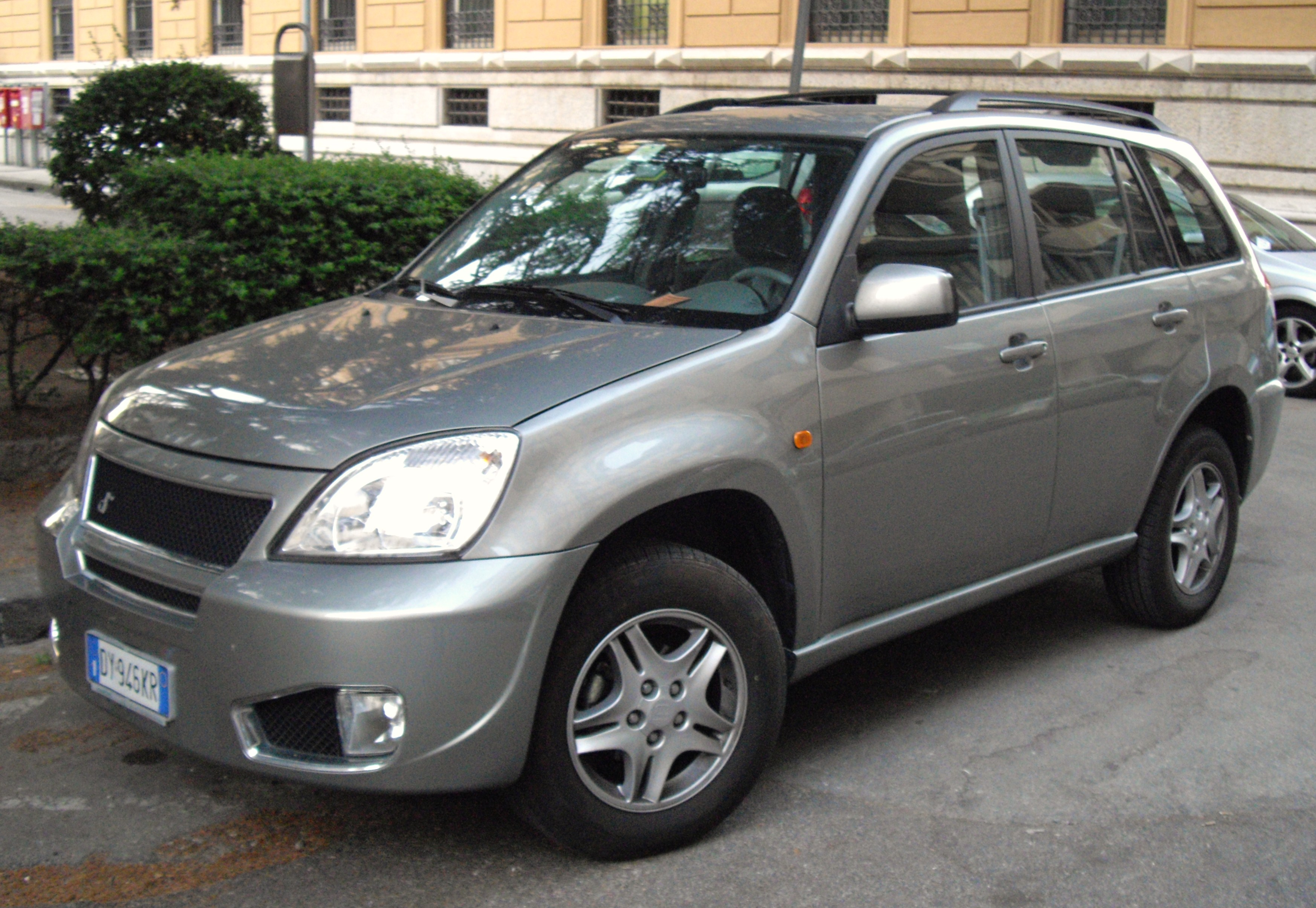 DR5 Silver